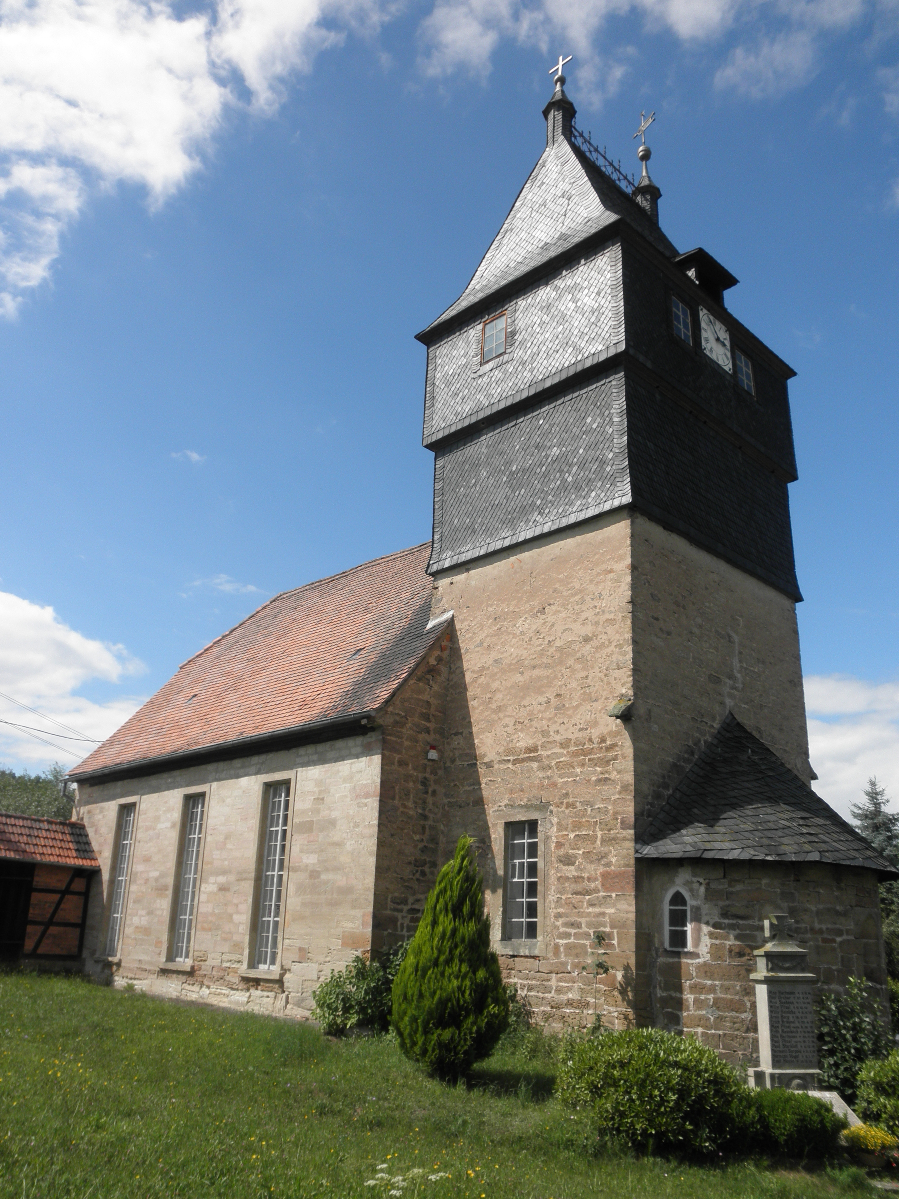 Church in Kleinebersdorf in Thuringia